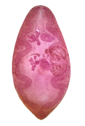 An adult specimen of Paragonimus westermani (Digenea: Plagiorchiida) stained with carmine.